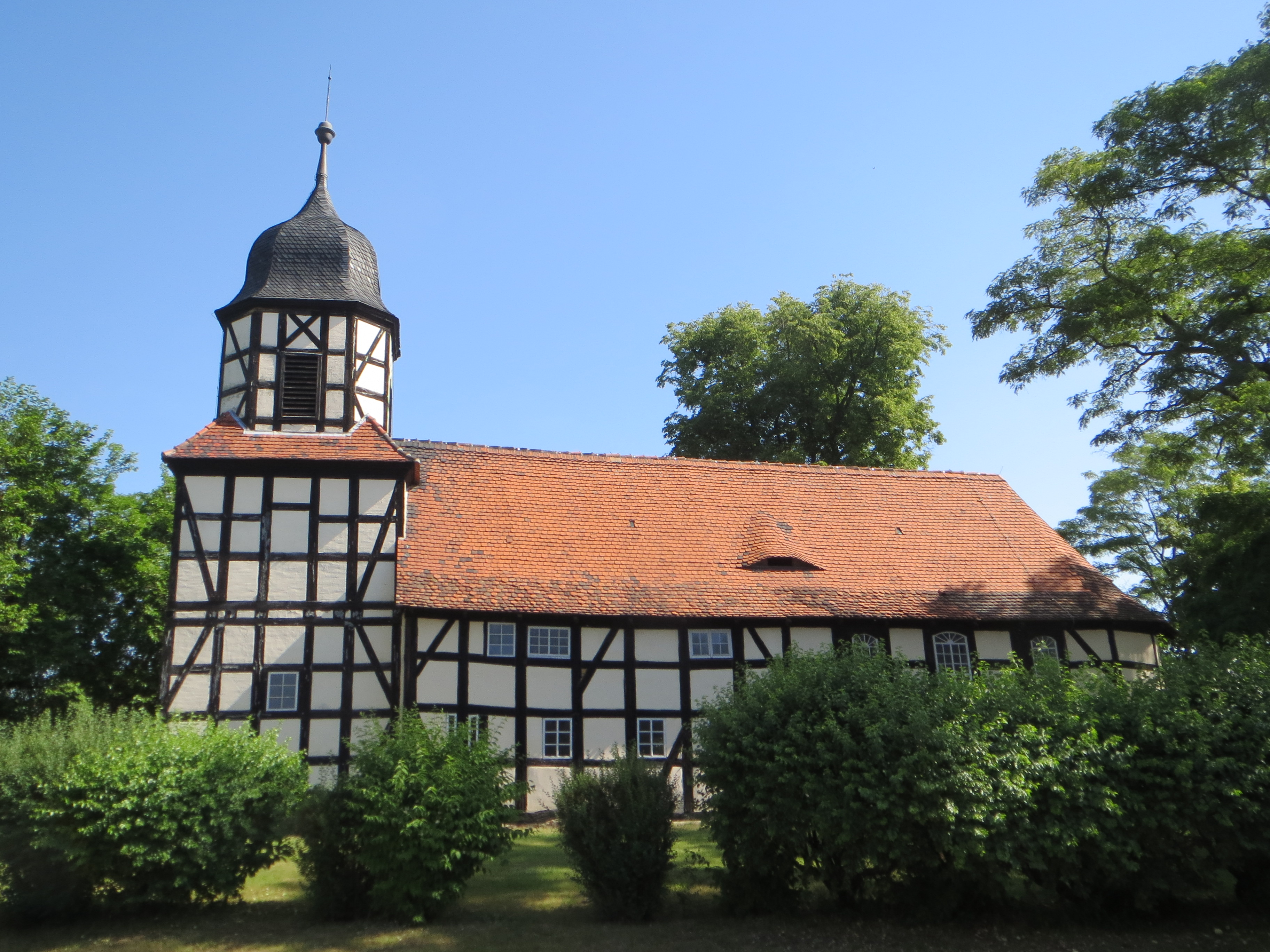 Kirche Arnsnesta